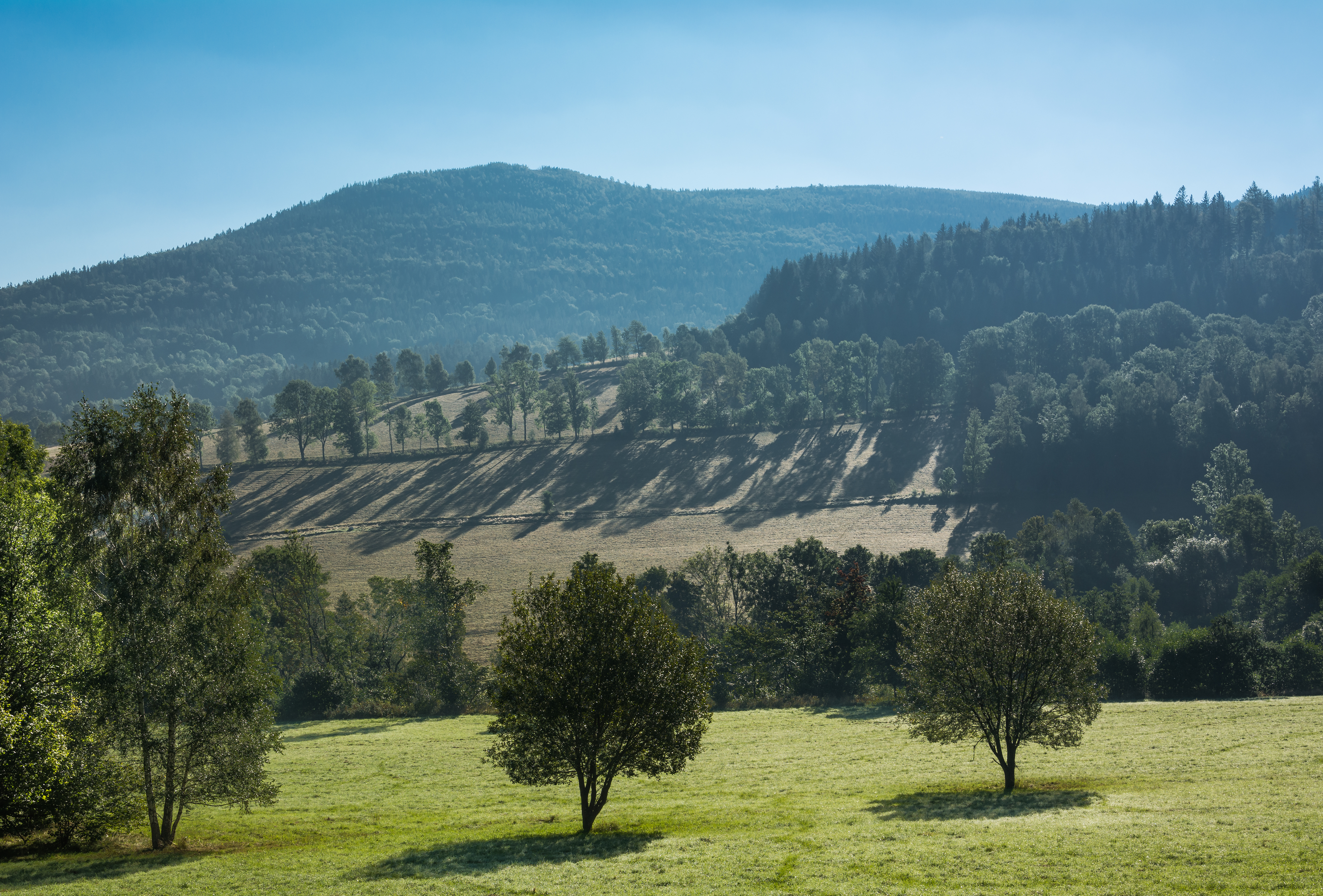 Surroundings of Młynowiec village, view on Łysiec, Bialskie Mountans, Sudetes